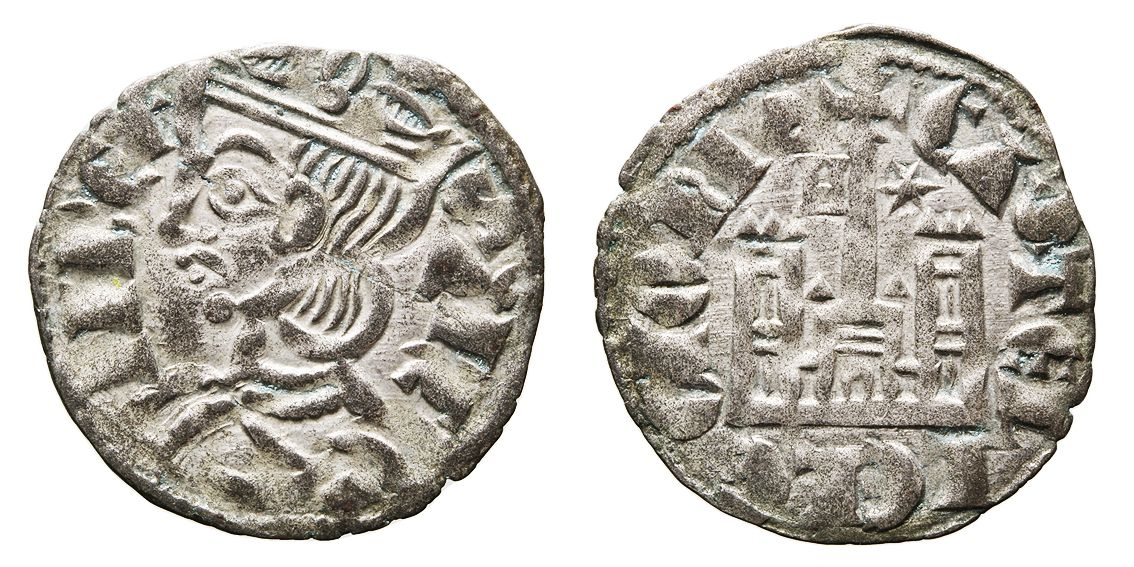 Castilian cornado, billon coin from the reign of Sancho IV of Castile (1284-1295). Minted in Murcia.